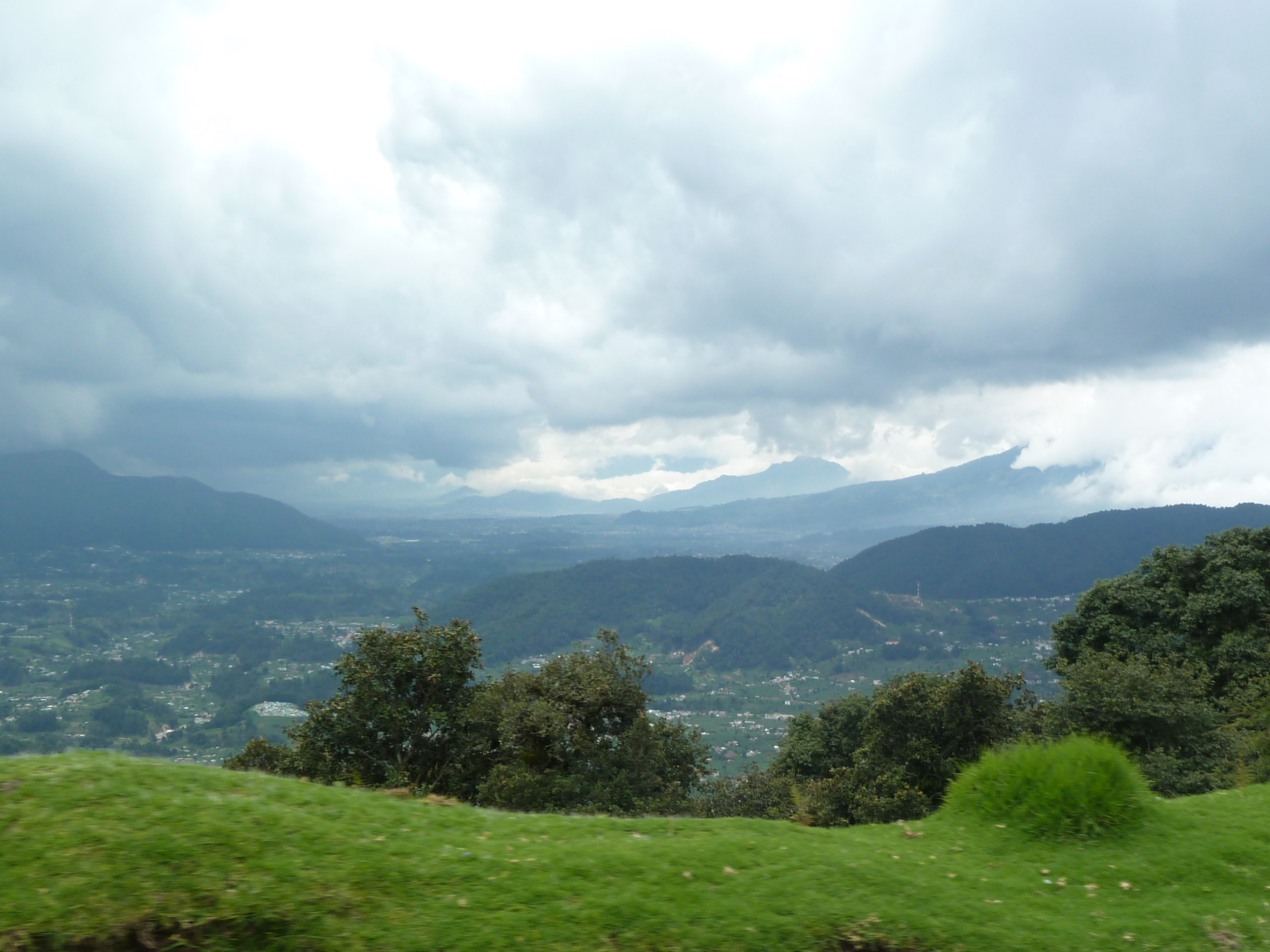 View from Rt.1 between San Juan Ostuncalco and San Marcos at Buena Vista, SW Guatemala